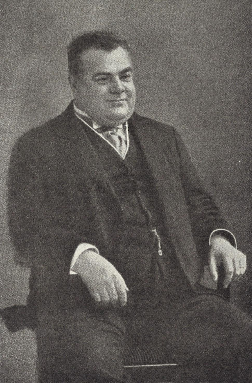 Axel Engdahl (1863-1922), Swedish actor, theatre owner and writer of revues.